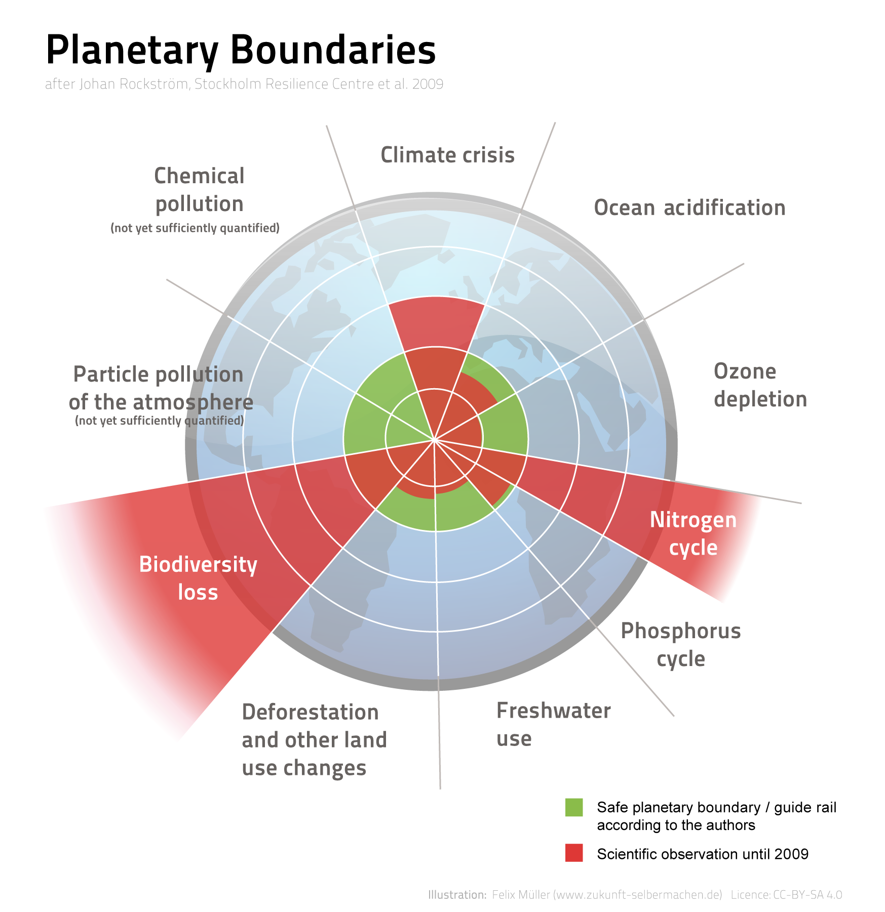 Planetary boundaries according to the paper by Rockström et al. published in Nature in 2009. The red areas represent the estimated current state with the inner green circle being the estimated boundaries.